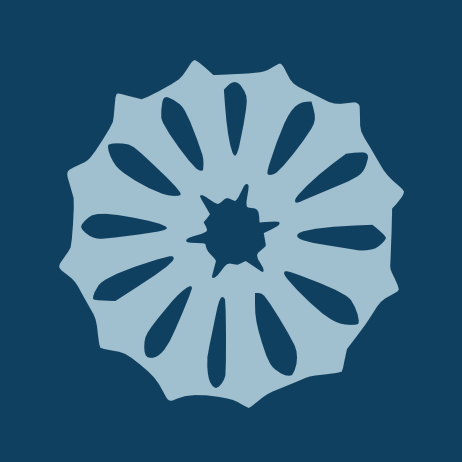 The "jumiõis", a stylized cornflower, symbol of Taaraism (Estonian Neopaganism).